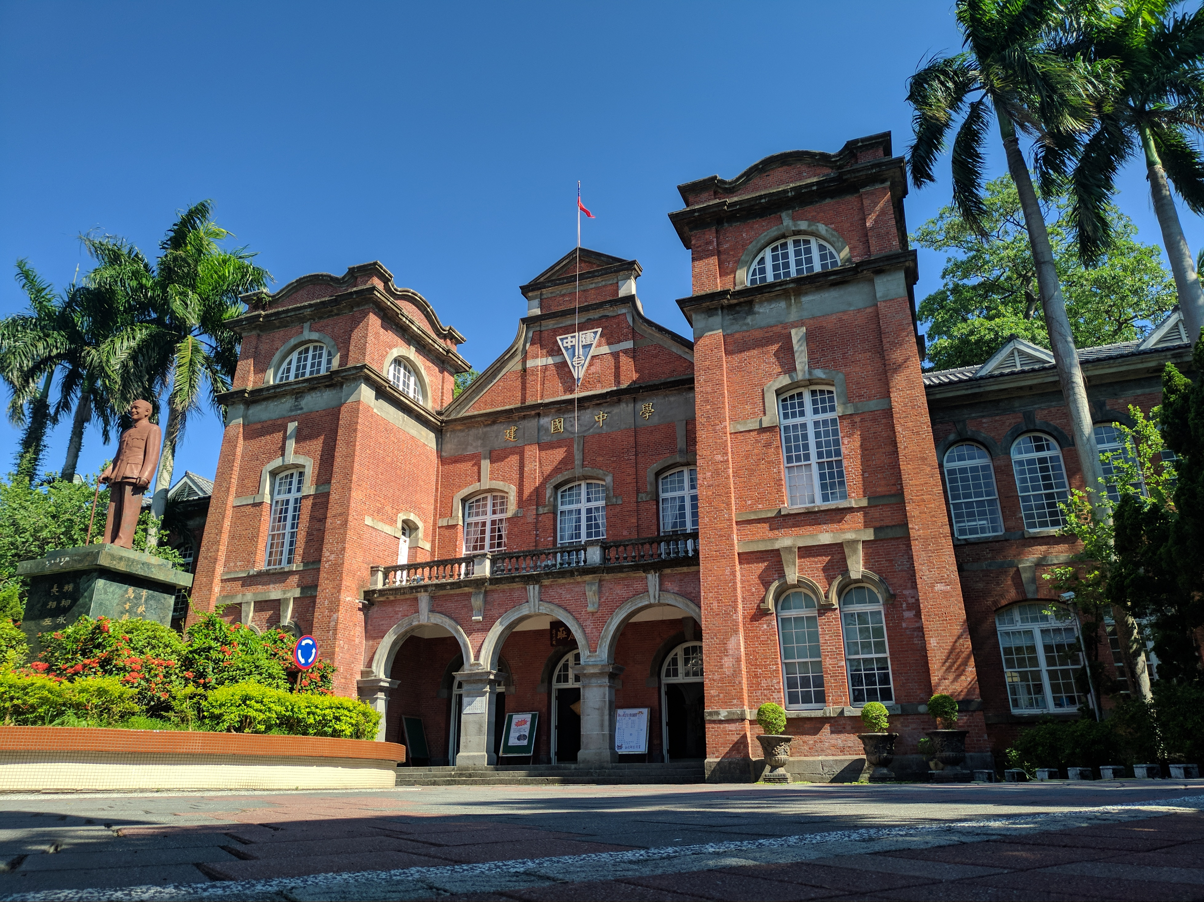 A photo of the building